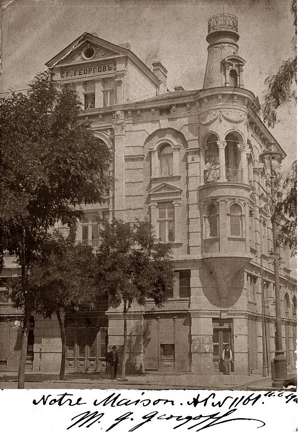 House of Georgi Georgov in Sofia